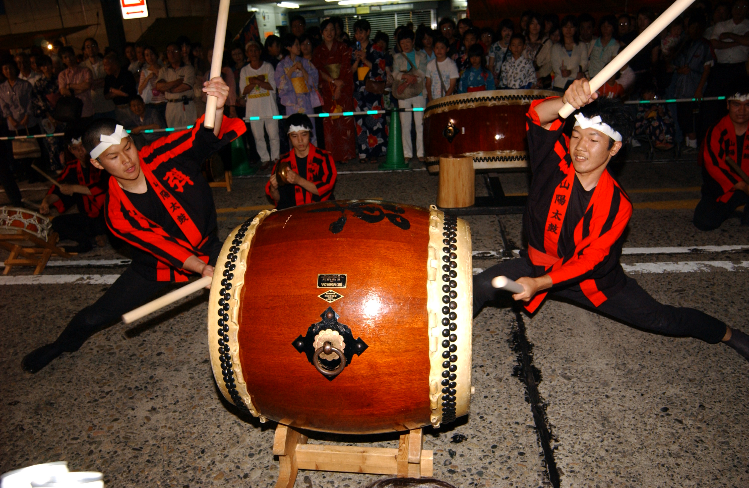 Thousands of participants dressed in their traditional yukatas and petite wooden shoes were the eye candy for spectators at one of Hiroshima’s favorite features, the Toukasan Festival, June 3-5. Toukasan is the summer festival in praise of the god Touka Daimyojin at Enryuji Temple, Hiroshima City.